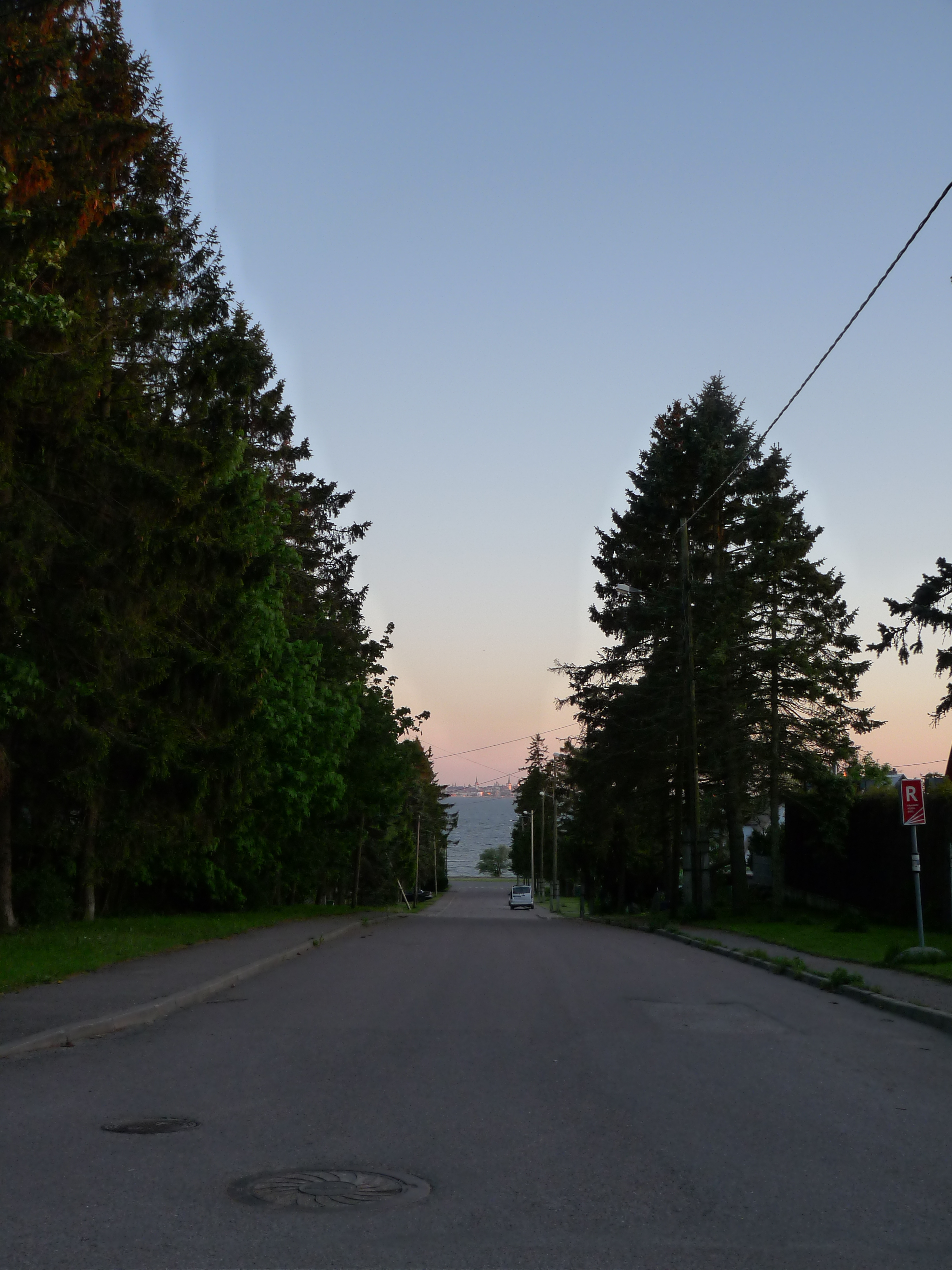 Väina street in Tallinn